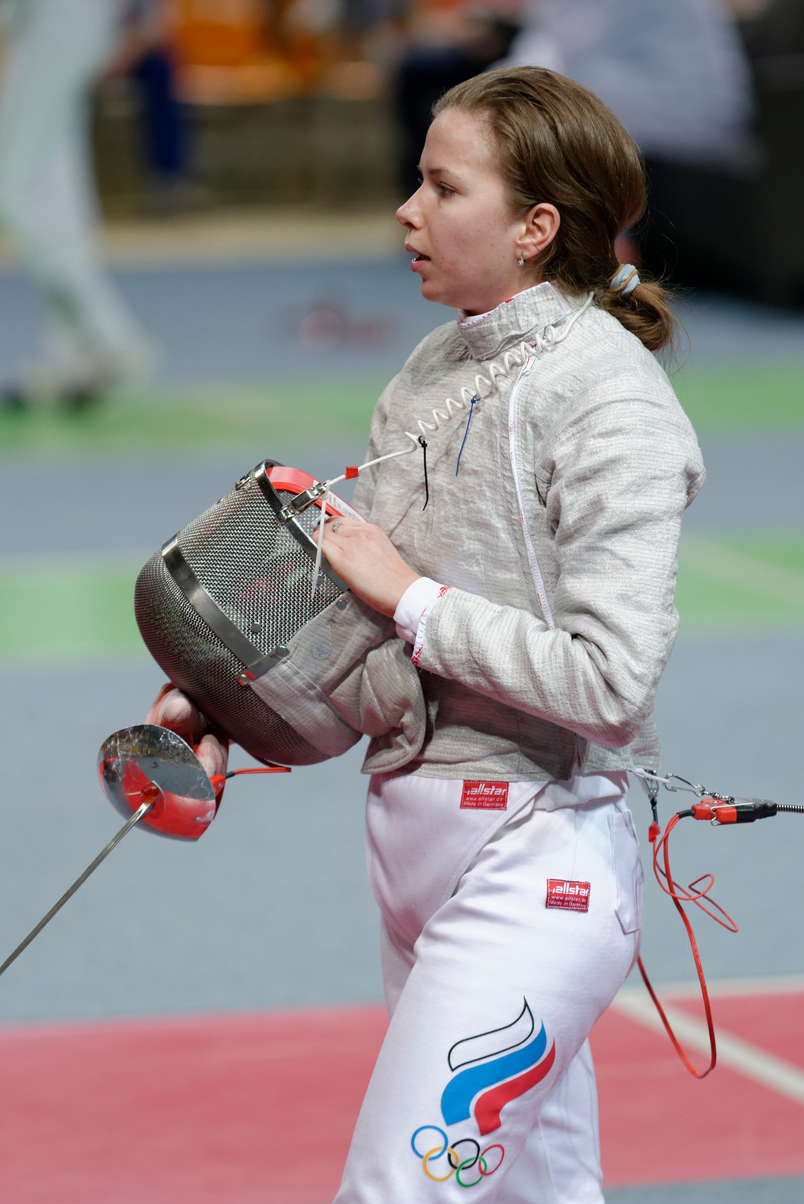 Russia's Yuliya Gavrilova during her bout against Rossella Gregorio of Italy in the table of 64 at the Trophée BNP Paribas-Grand Prix FIE, first stage of the women's sabre World Cup, in Orléans.